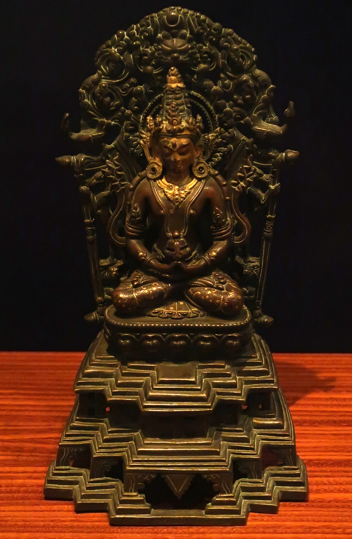 Amitābha. Tibet, 17th century. Toulon Asian Art Museum